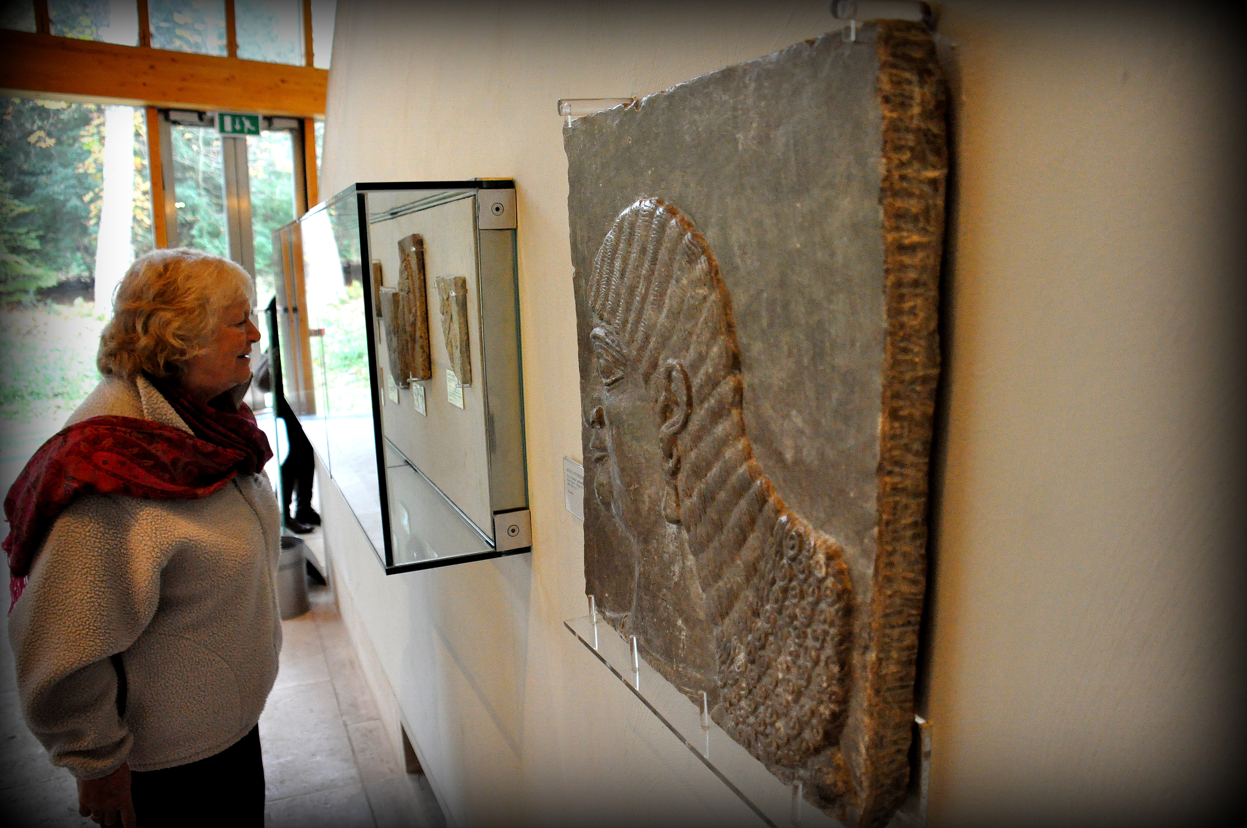 This woman looks at an alabaster bas-relief which depicts a head of a royal attendant (the case next to the relief displays many small reliefs from Nineveh). From the north-west palace of Ashurnasirpal II at Nimrud (modern-day Ninawa Governorate, Iraq), Mesopotamia. Neo-Assyrian period, 883-859 BCE. The Burrell Collection, Glasgow, Scotland, UK.